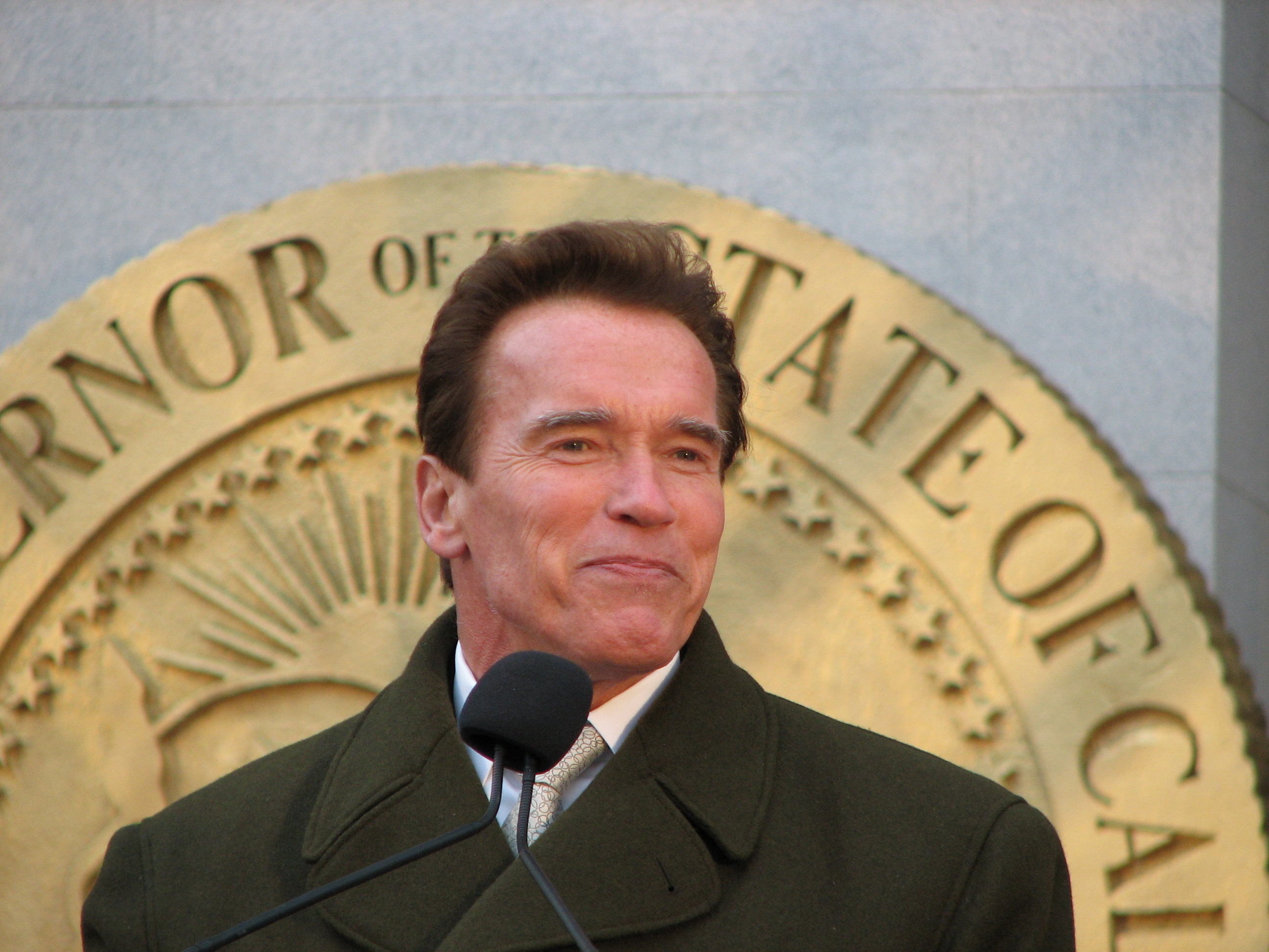 Governor Arnold Schwarzenegger.